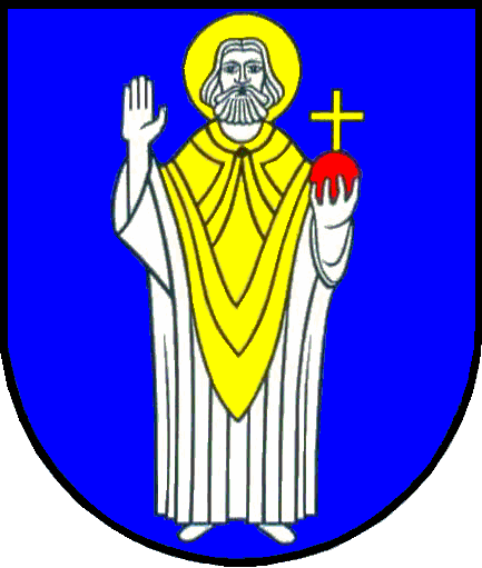 Coat of arms of the Amt (county) Wilstermarsch in Schleswig-Holstein, Germany.